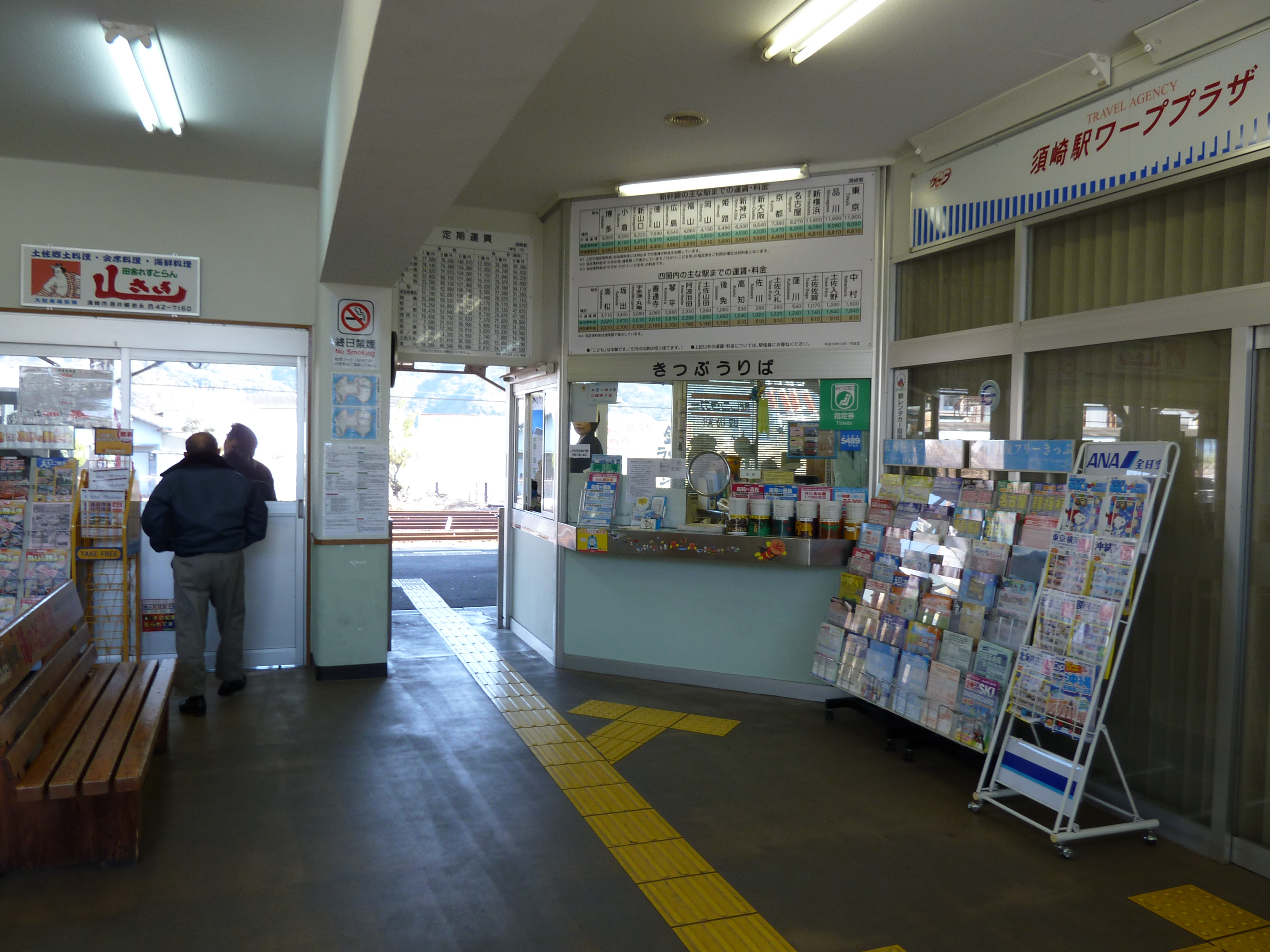 須崎駅の改札口周辺